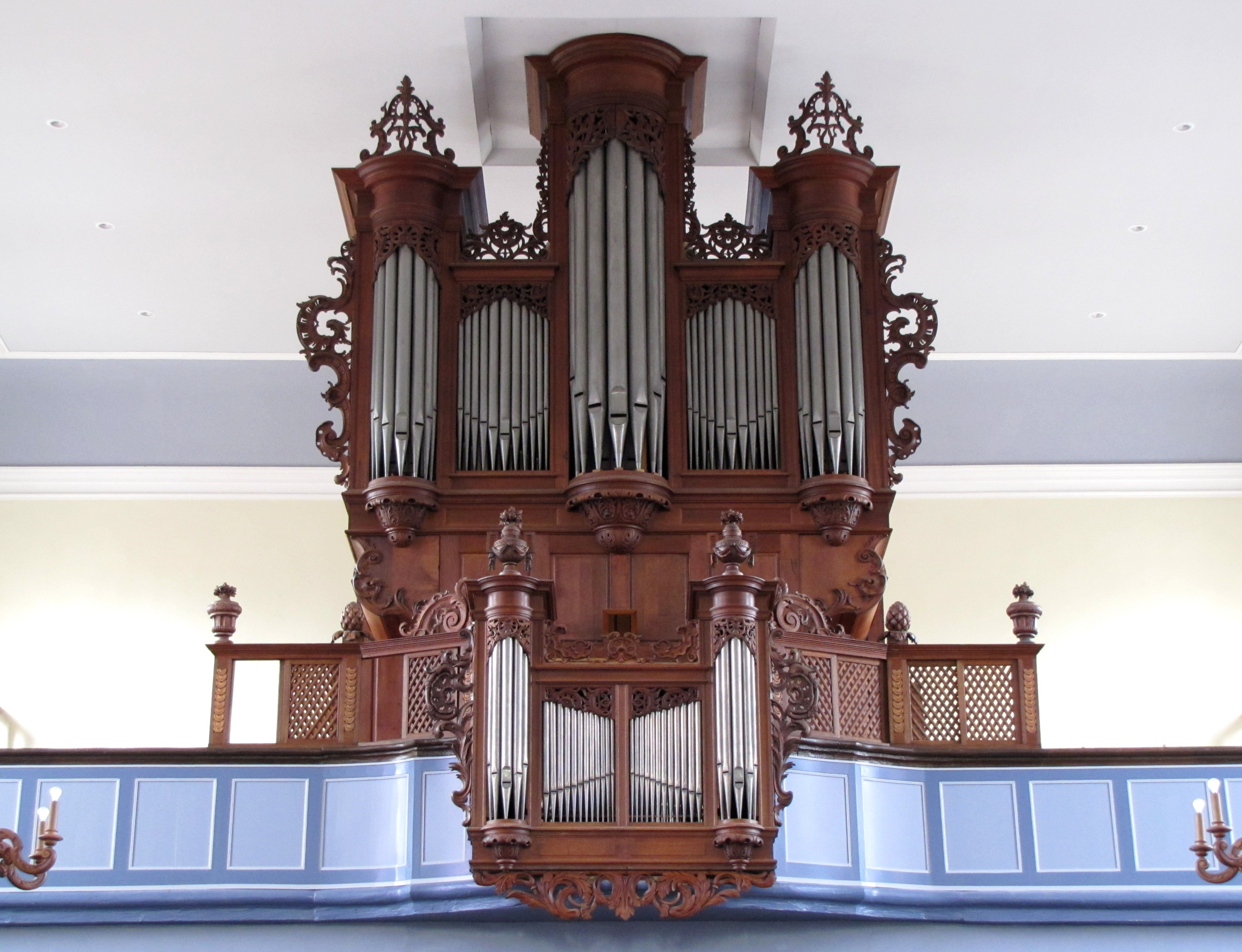 Alsace, Bas-Rhin, Wasselonne, Église protestante Saint-Laurent (IA67006779). Orgue de tribune Johann-Andreas Silbermann (1745): This object is classé Monument Historique in the base Palissy, database of the French furniture patrimony of the French ministry of culture, under the references PM67001103 and IM67010585. This object is classé Monument Historique in the base Palissy, database of the French furniture patrimony of the French ministry of culture, under the references buffet+garde-corps PM67000437 buffet+garde-corps and instrument PM67000436 instrument.